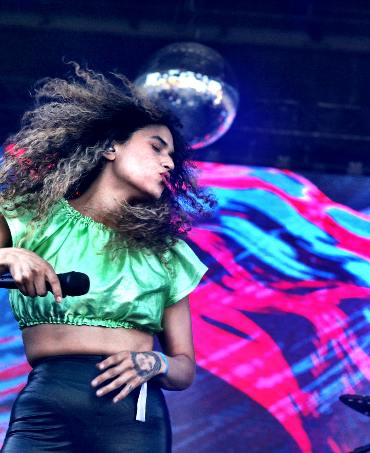 Of Empress Underground Music Showcase 2019